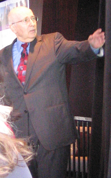 Philip Kotler at AMA BrandSmart 2007 conference in Chicago